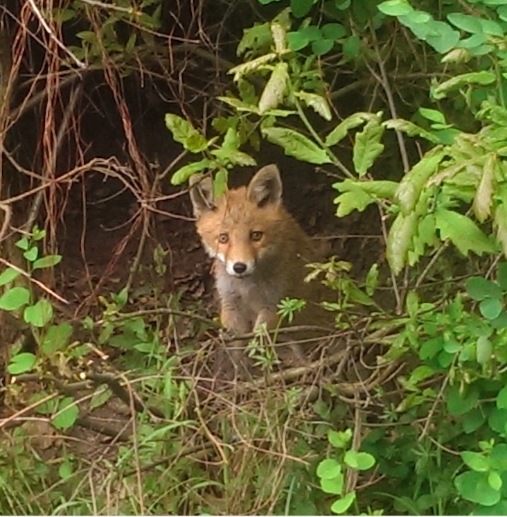 Fox cub in the bushes